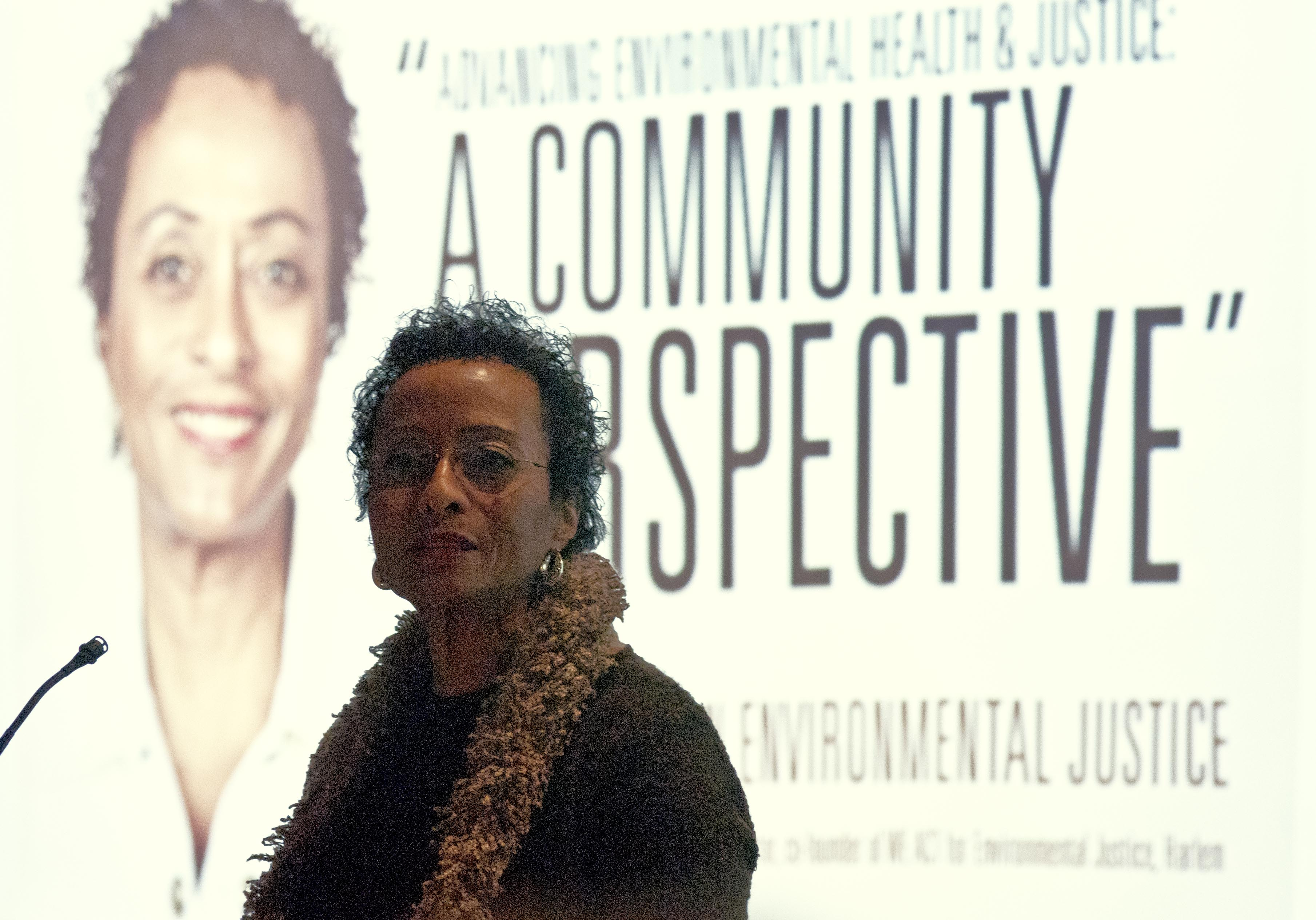 Peggy M. Shepard, executive director and co-founder of WE ACT For Environmental Justice (WE ACT), gives the annual MLK Lecture on Environmental Justice Learn more about Environmental Justice at